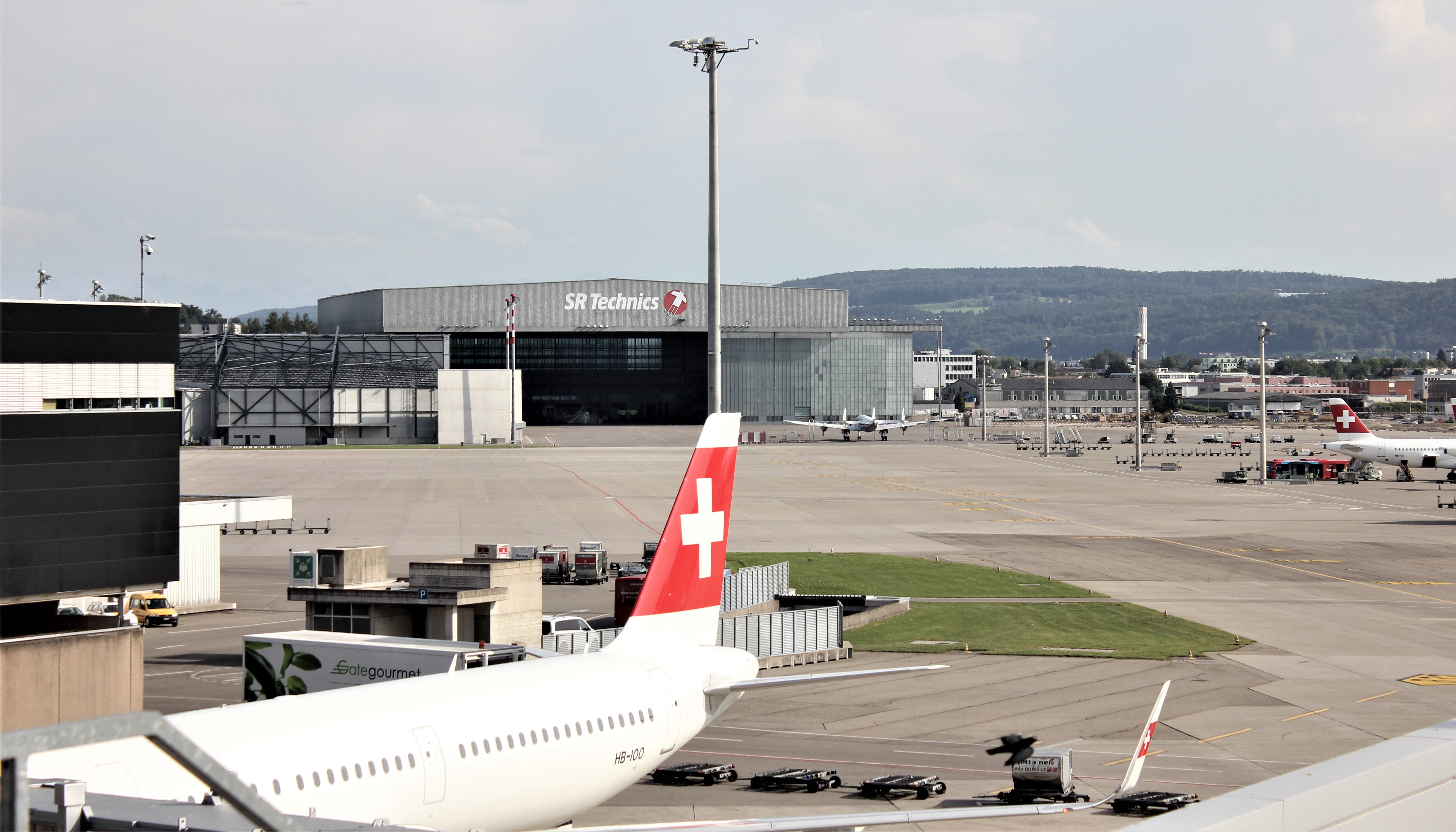 SR Technics hangar at Zurich International Airport seen from the viewing platform